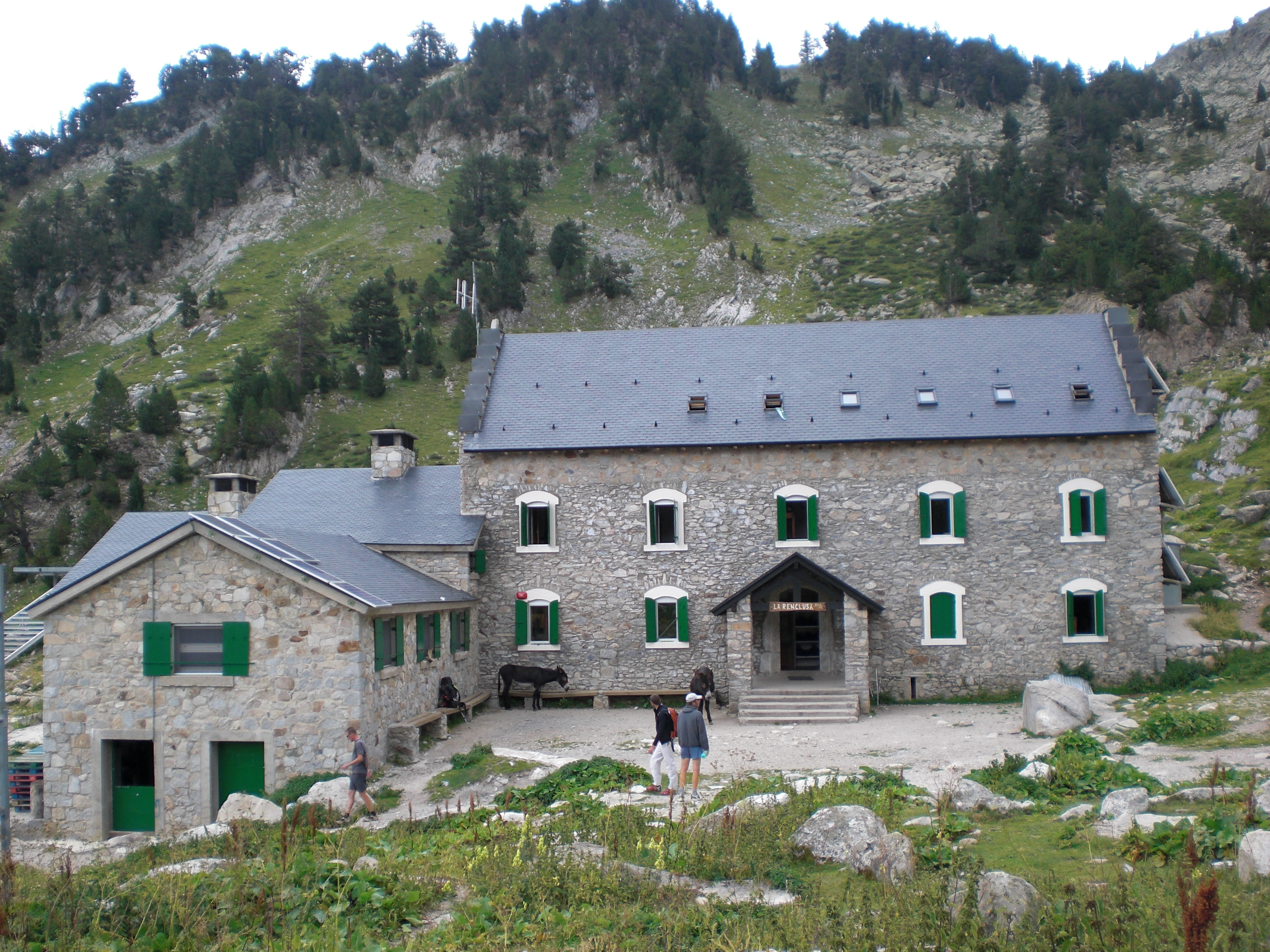 La Renclusa refuge in the Pyrenees